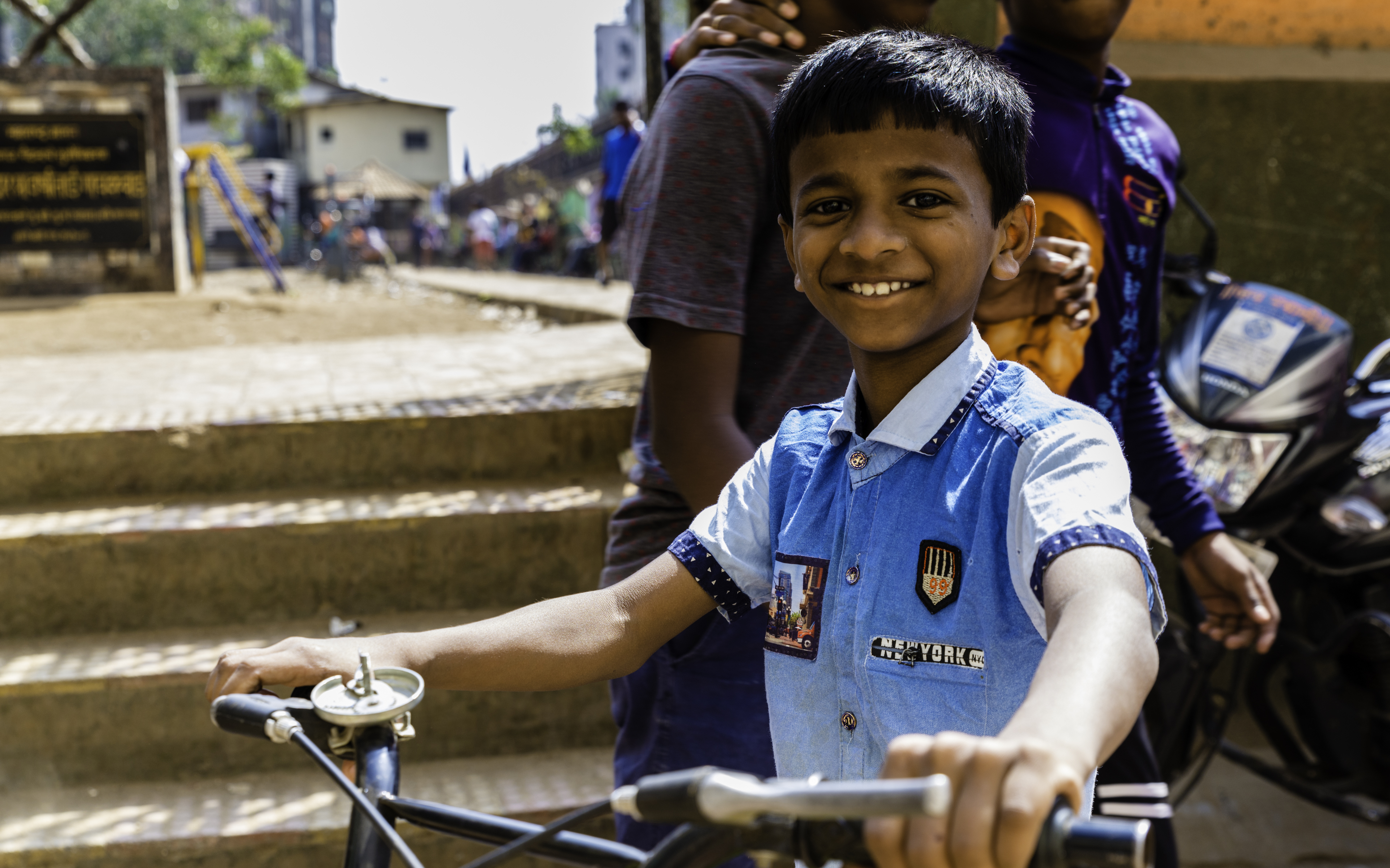 This young boy lives in Dharavi, the worlds third largest slum, in Mumbai, India. Despite his fate of being born into the slum, he still goes to school and is just like any other boys his age. In the background you see the small school yard.